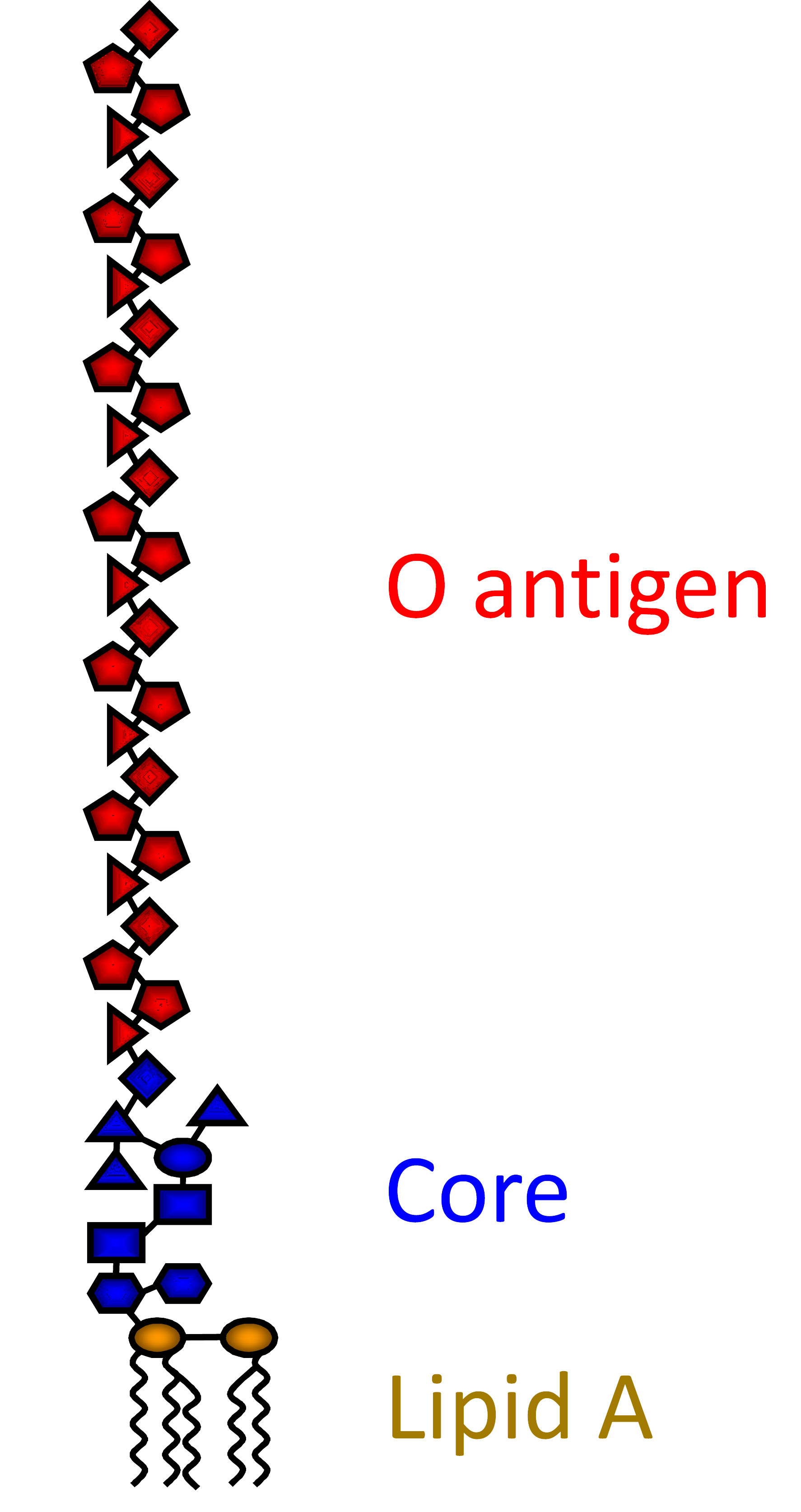 Cartoon of lipopolysaccharide (LPS). A real structure of Pseudomonas aeruginosa LPS. Each type of sugar represented by a different shape. Non-carbohydrate moieties not represented (e.g. phosphates)